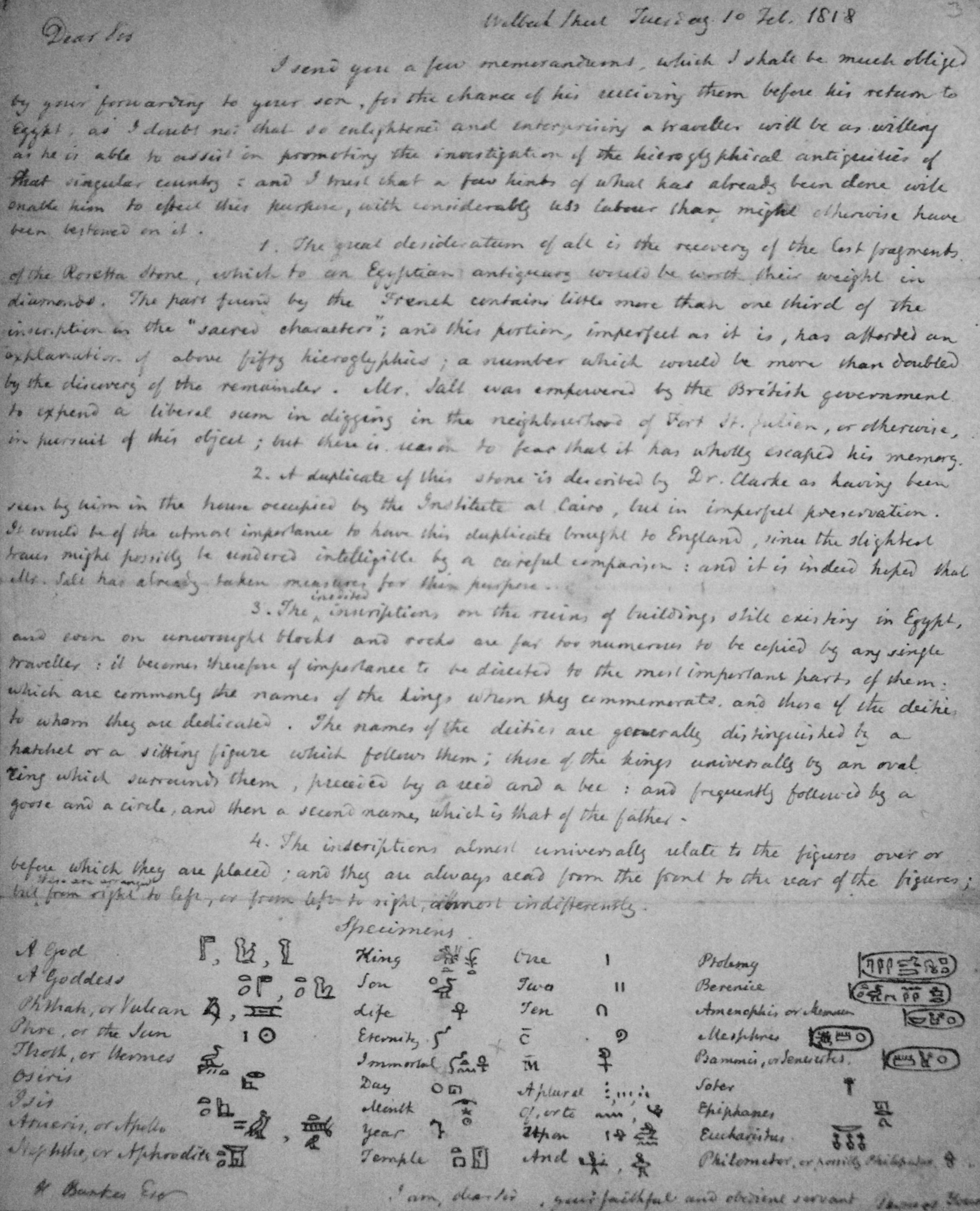 Photos of a letter by Thomas Young to William Banks from 1818, with a desciption at the bottom of several hieroglyphs, several of which were correct.